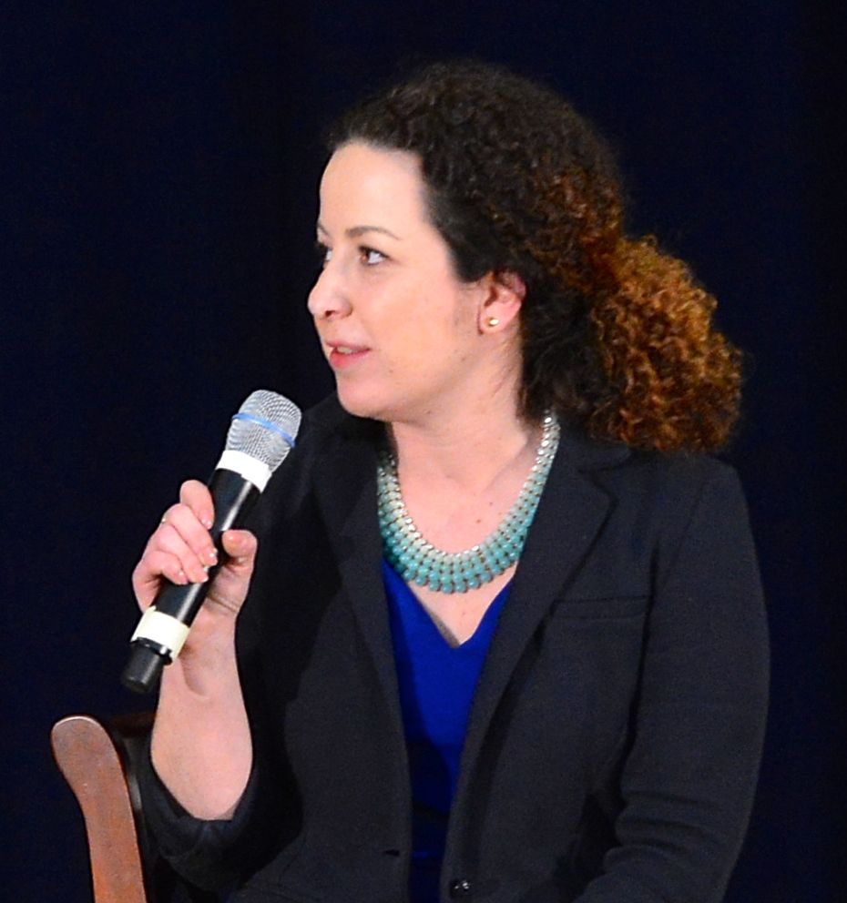 U.S. Secretary of State John Kerry hosts a Town Hall, moderated by BuzzFeed’s Miriam Elder, on ‘Making Foreign Policy Less Foreign’ with university students from around the country attending Washington-area programs, Congressional interns, and U.S. Department of State interns at the Department in Washington, D.C., on March 18, 2014. [State Department photo/ Public Domain]